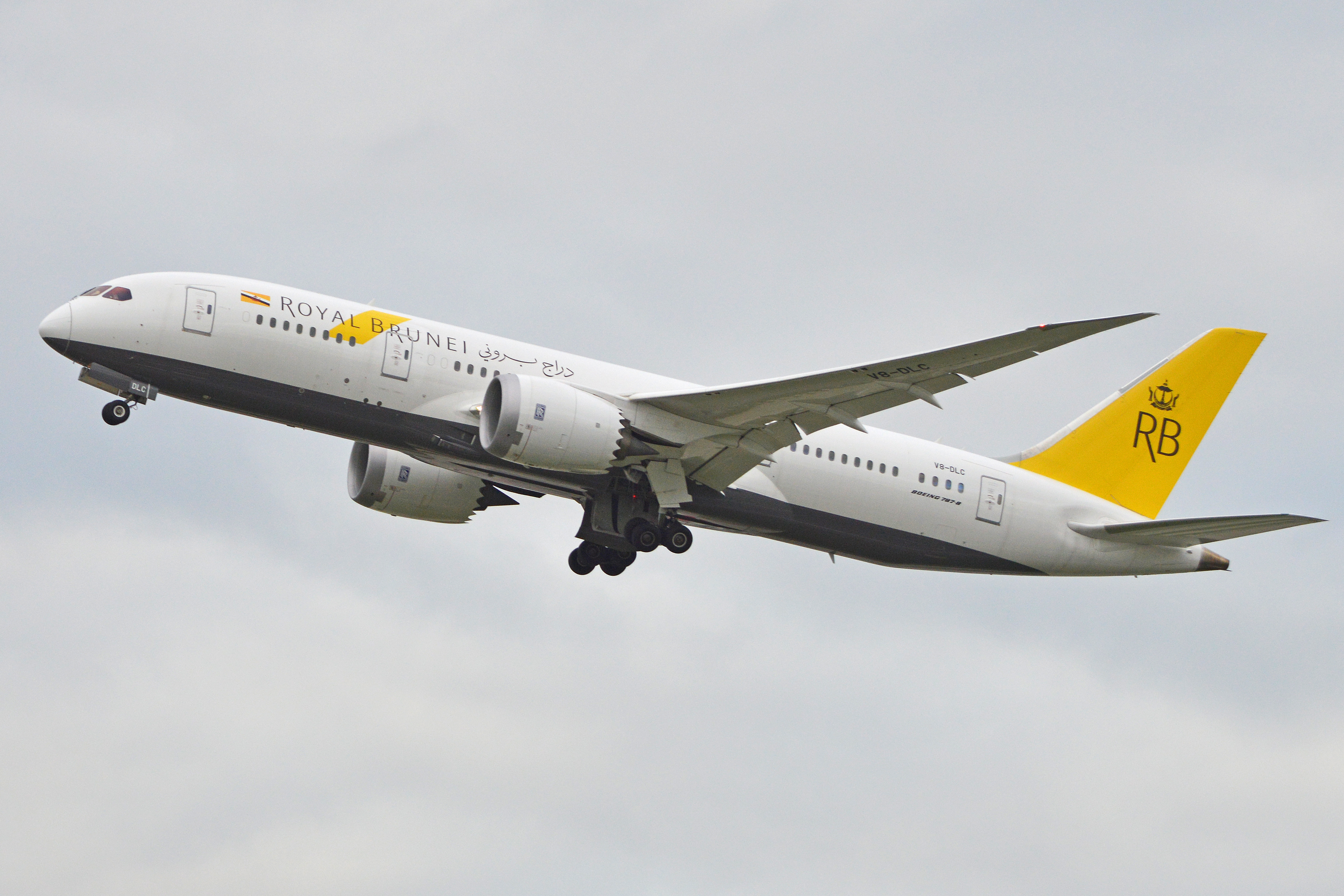 c/n 34789, l/n 156. Built 2014. Seen departing on flight RBA98 to Dubai. London Heathrow Airport. 17-9-2015